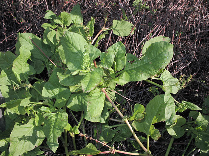 Emex spinosa. Santa Monica Mountains National Recreation Area, California, USA. Taken at Zuma Beach County Park in fully developed land. NPS photo, no copyright.